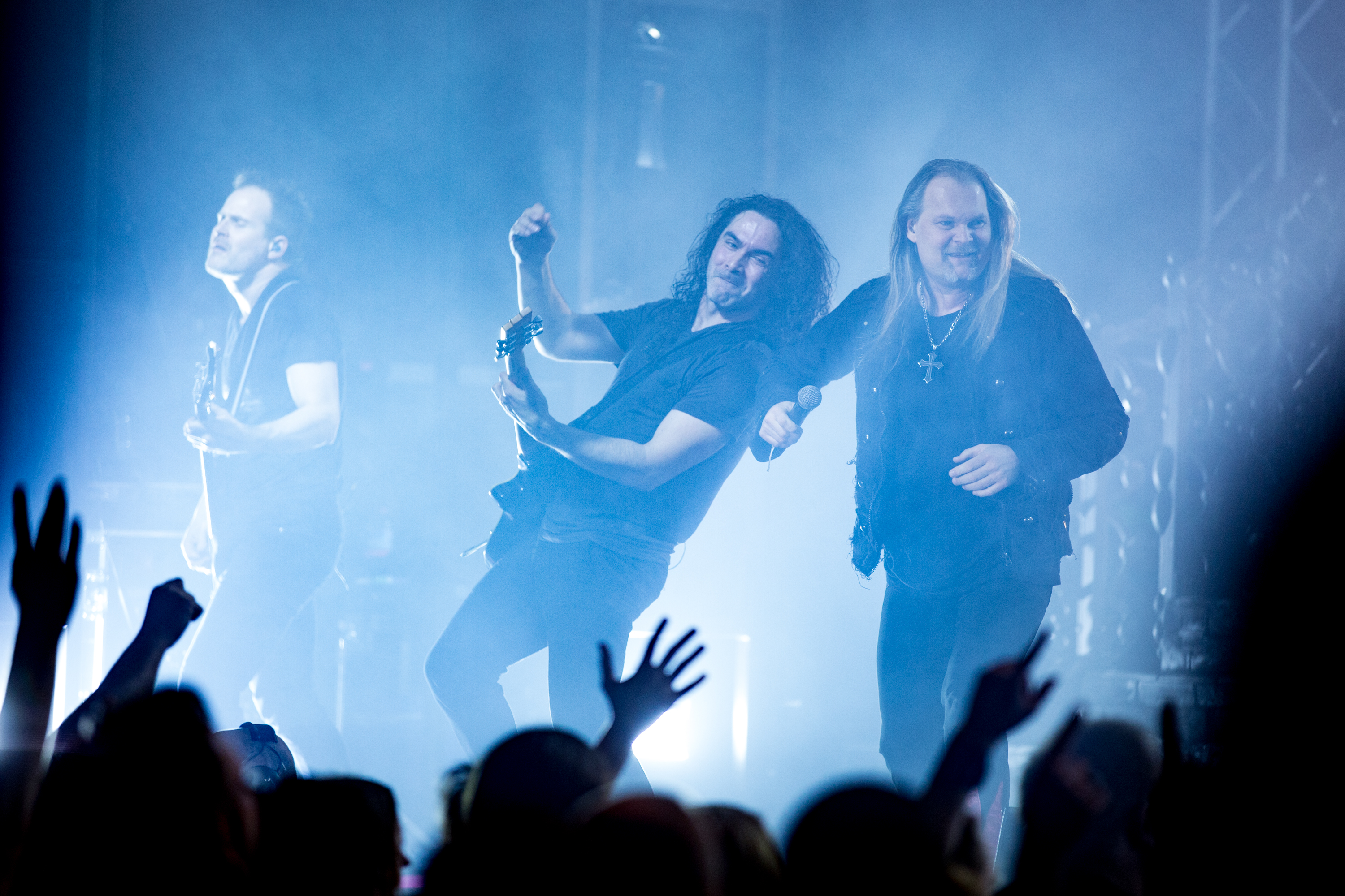 Avantasia at Turbinenhalle Oberhausen on 20th March 2016